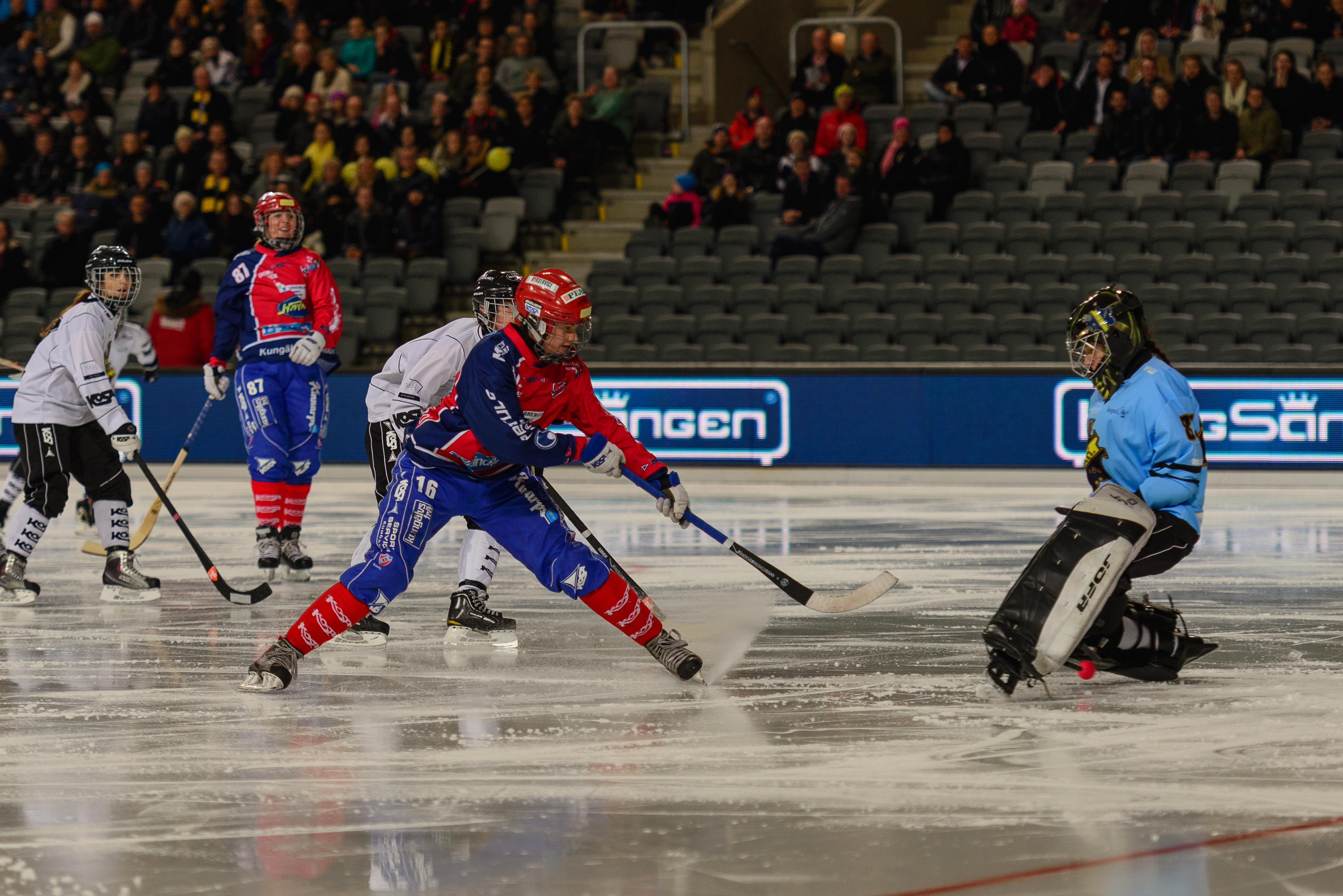 Camilla Johansson (Kareby) score the first goal againt. Swedish championship in bandy, finale (women). Kaleby 3 vs AIK 1.